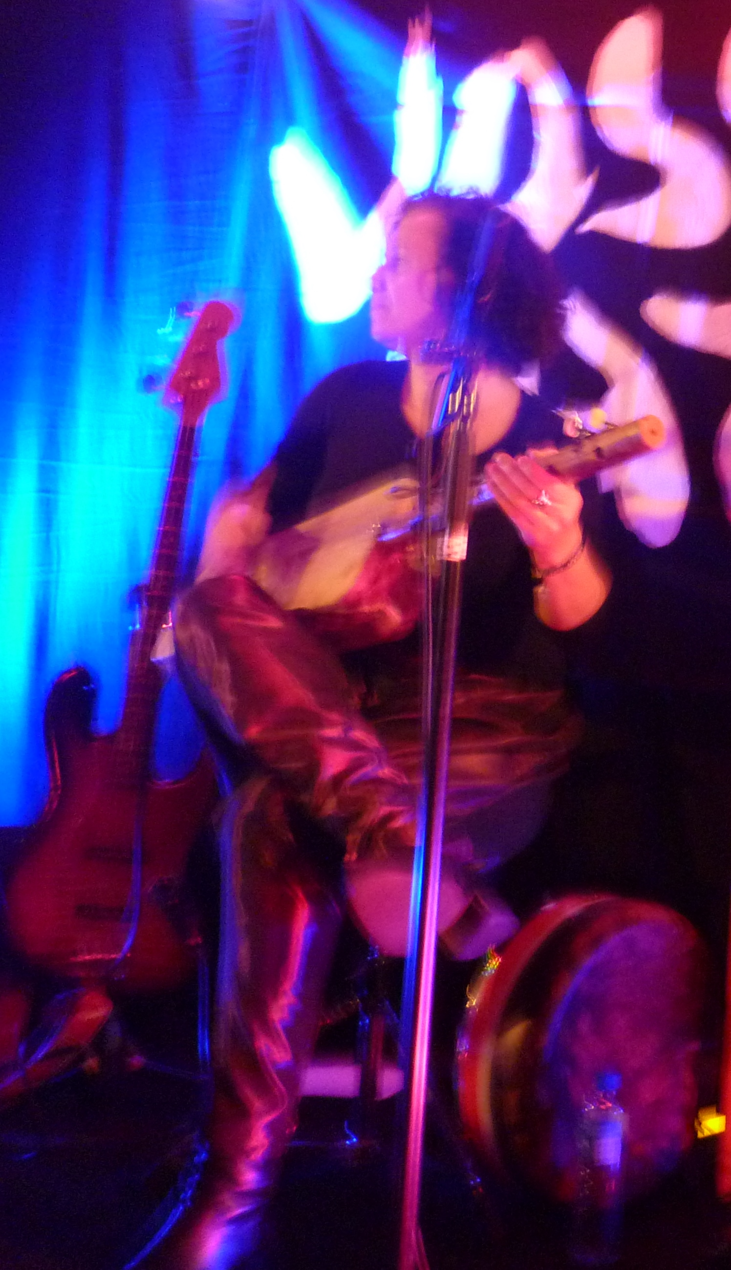 Malika Malouf Rasmussen at Vossajazz 2017.